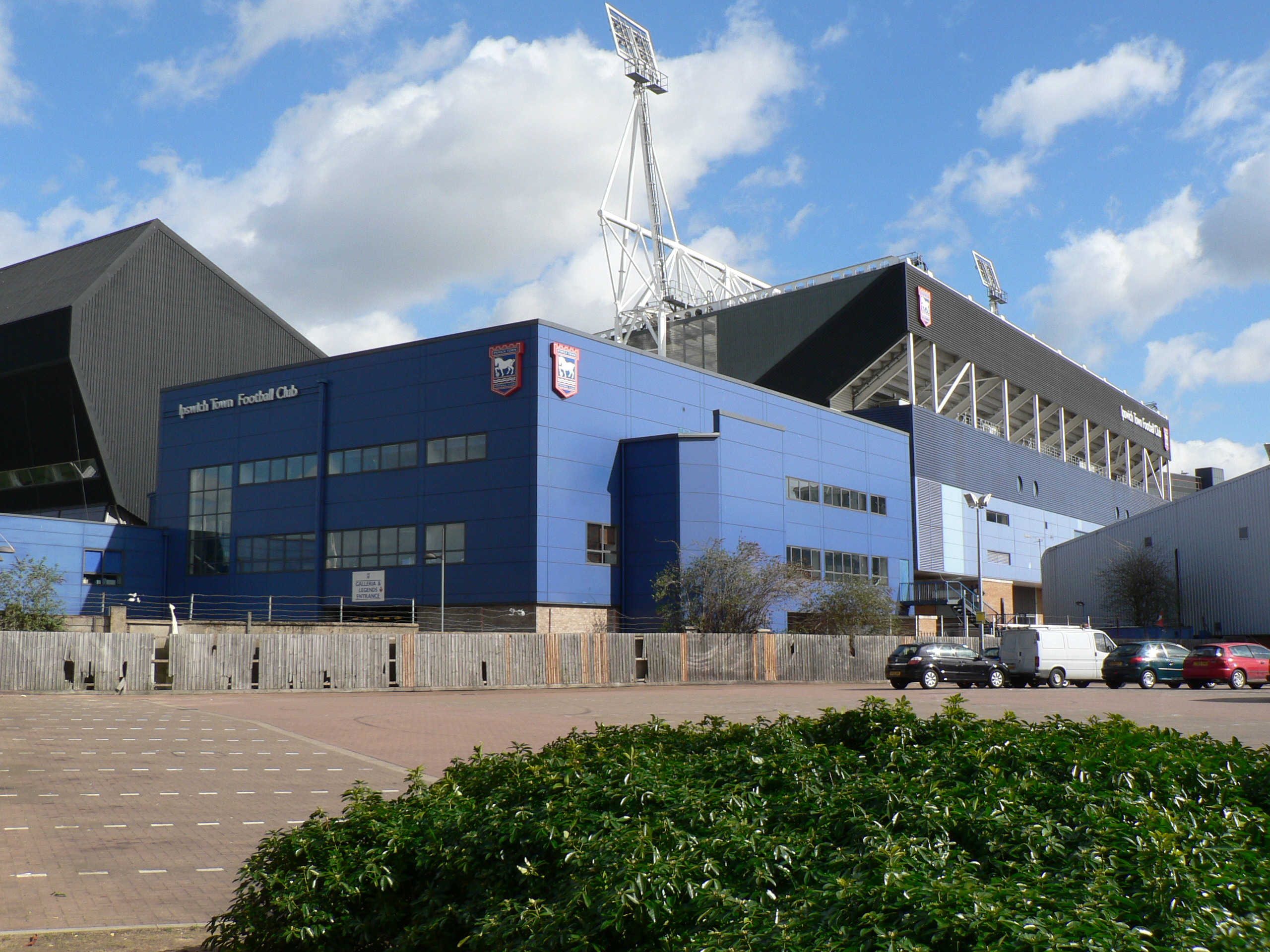 South Stand at Ipswich Town Football Club